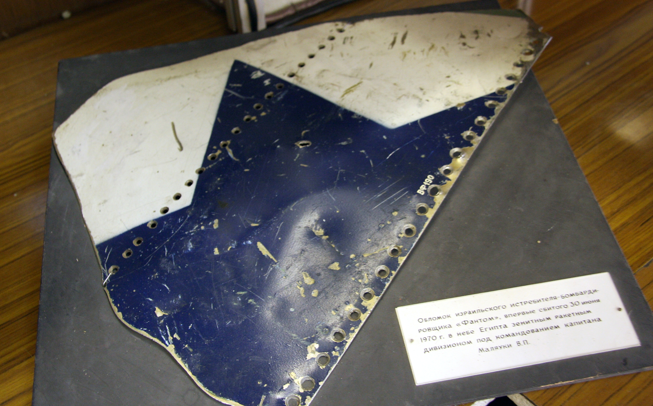 Air Defense History Museum in Zarya in Moscow Oblast - Fragment of shot israeli F-4 in Egypt.